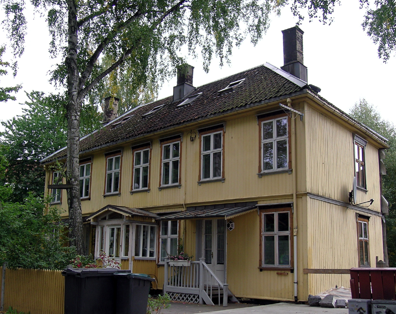 Odalsgata 19, Oslo. Old one-storey core in logwood from ca. 1860. Enlarged 1895 in nogged framework and panelled.